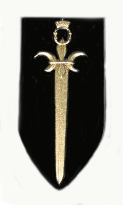 Staff & HQ Company 30th Armored Grenadiers Brigade